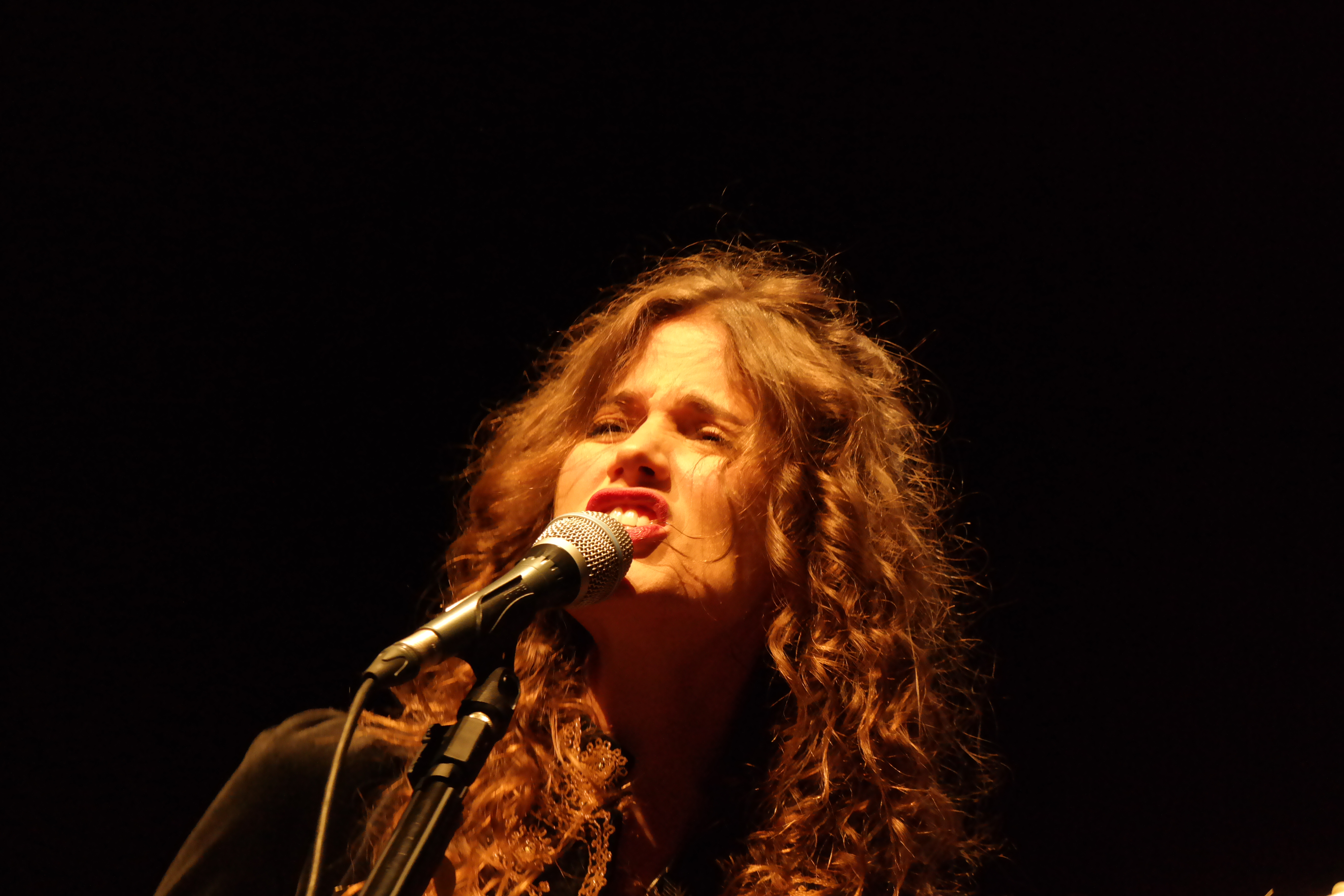 Ana Cañas on her Tô na Vida Tour